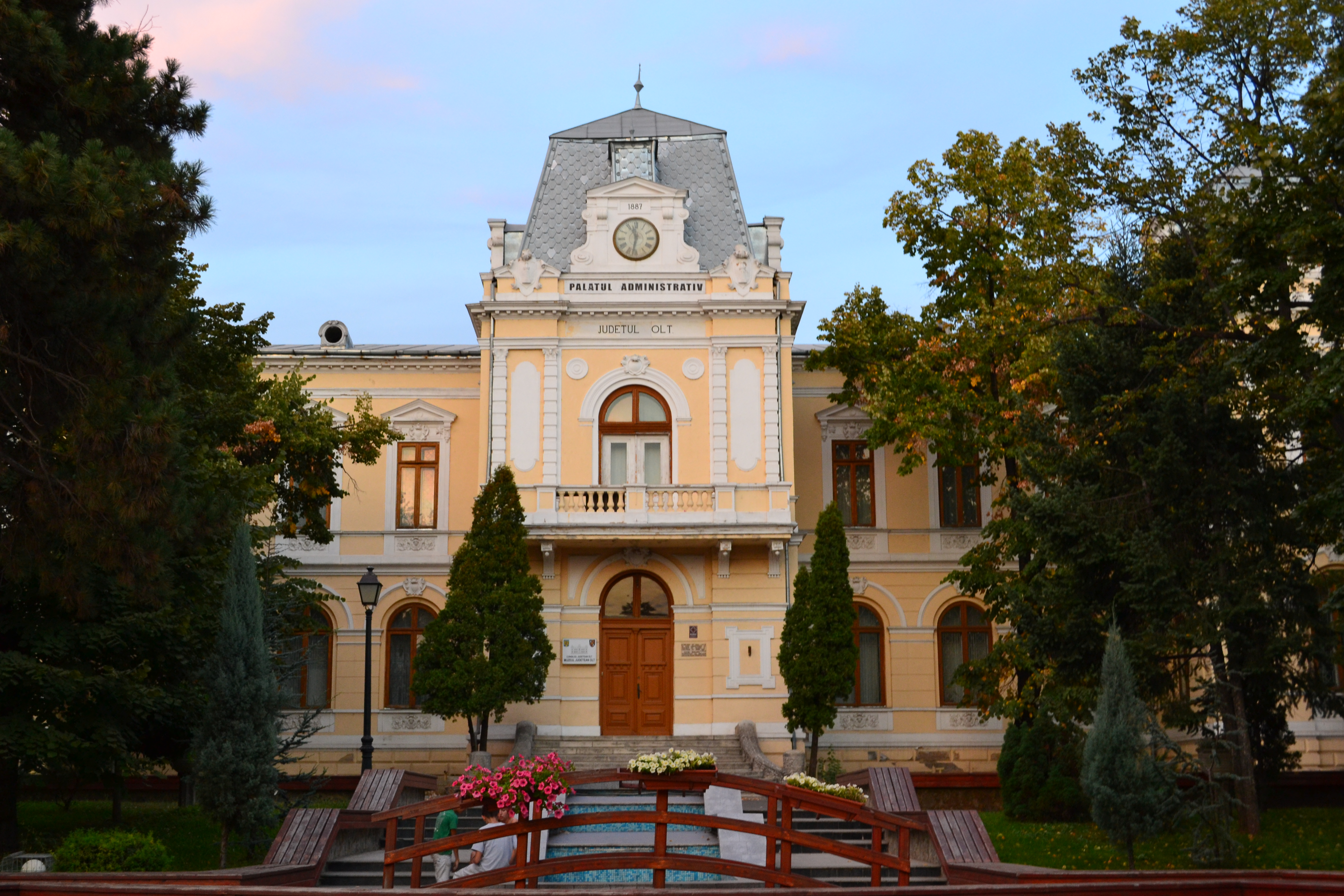 Olt County Museum, front view